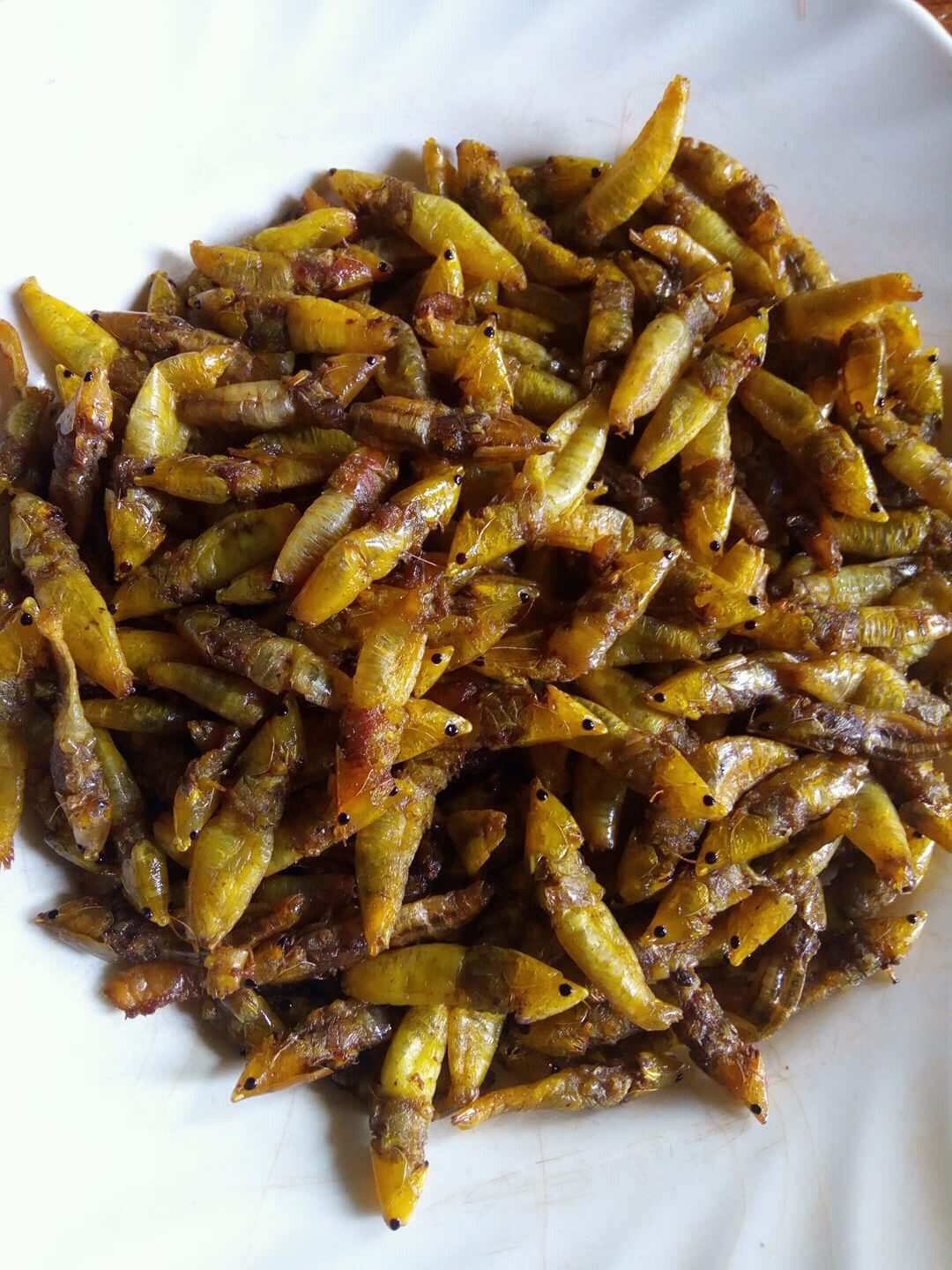 In Uganda the worst comes to the best in november and december when pests called grasshoper are enjoyed as tge best dish This is an image of "African people at work" from Uganda